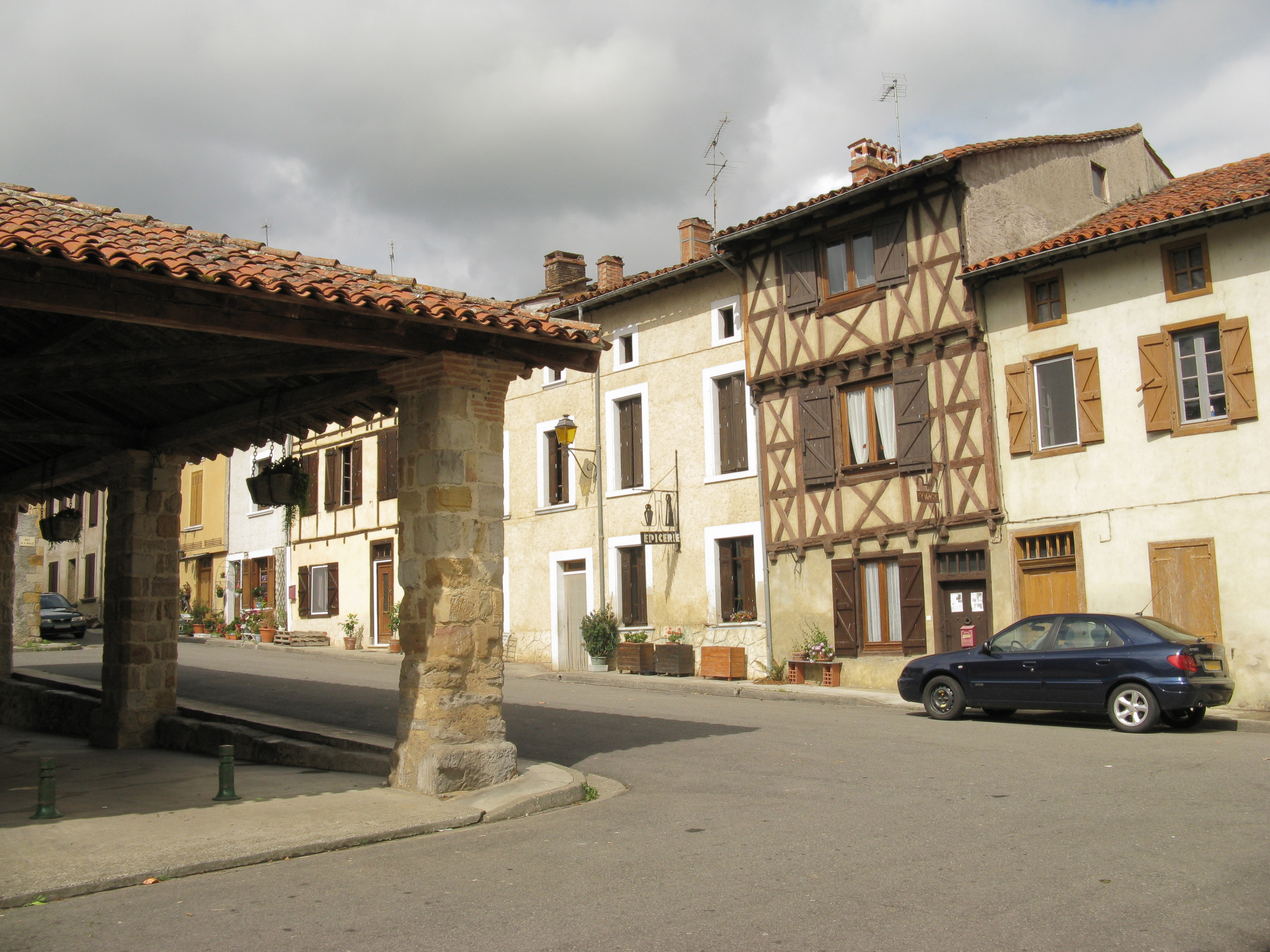 The market hall in Montbrun-Bocage, Haute-Garonne, France.